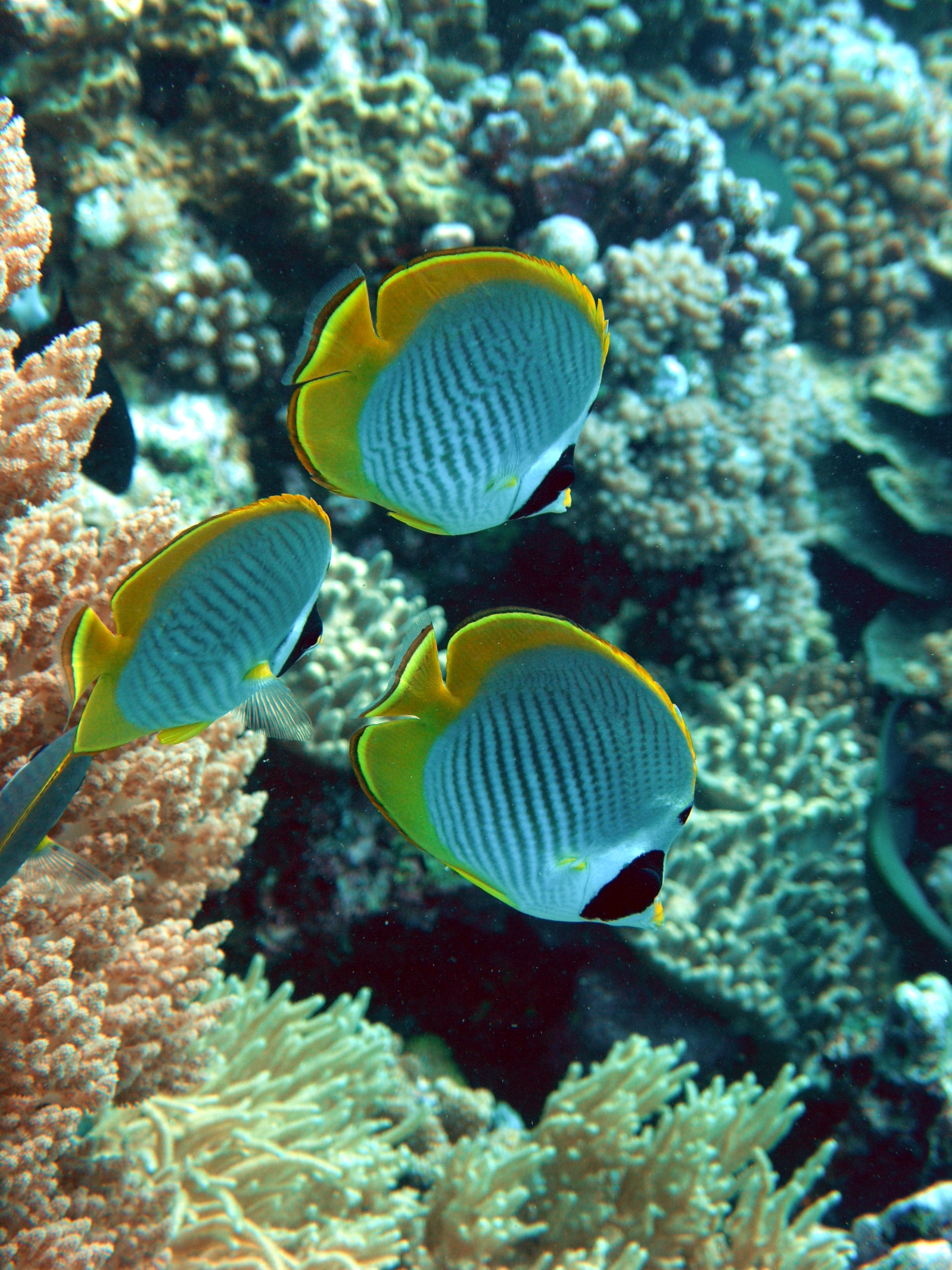 scuba diving near Swallow Reef (Pulau Layang-Layang) in Spratly Islands, South China Sea